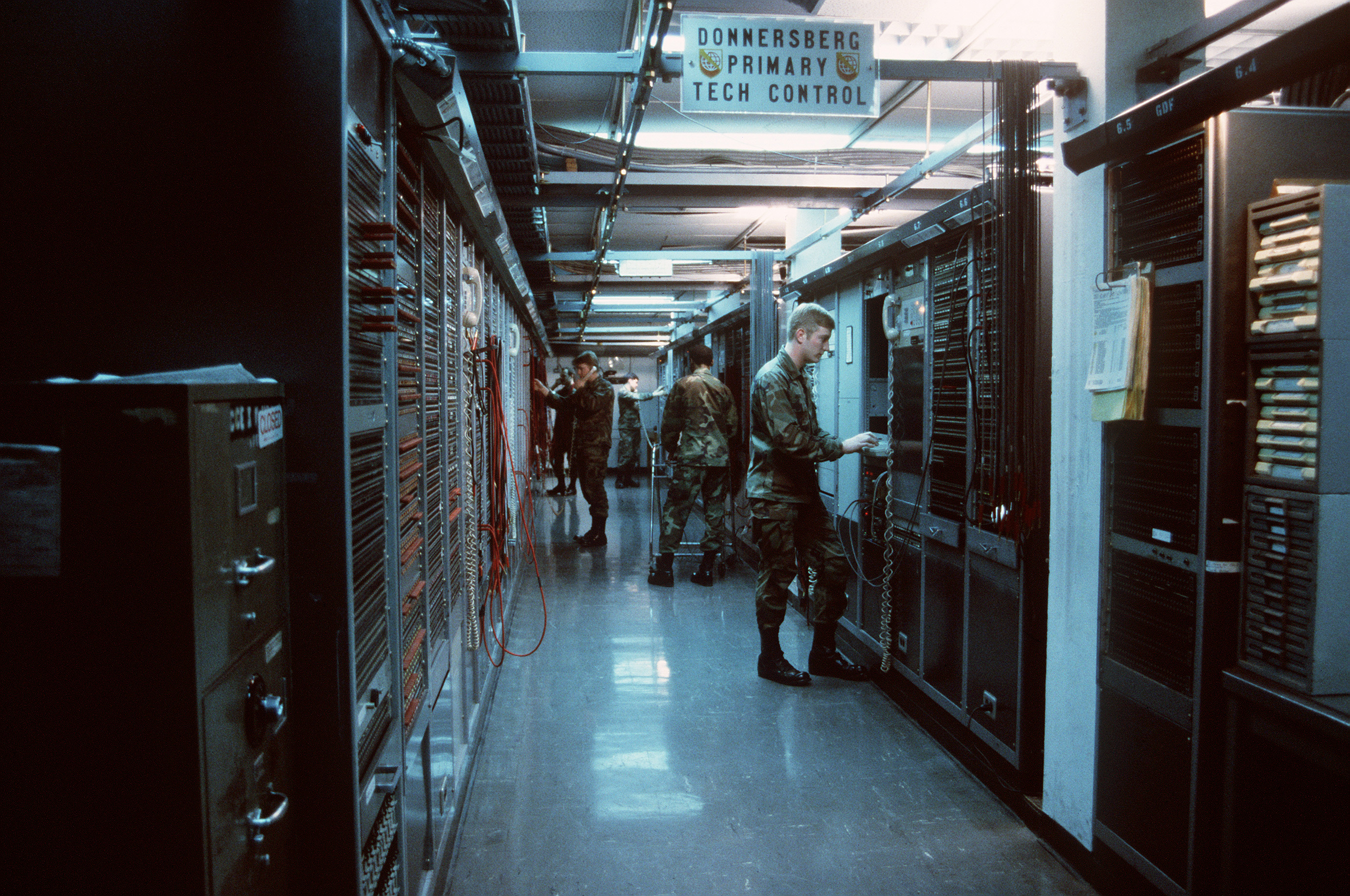 Soldiers work in the primary technical control section of the Defense Communications Station operated by the 298th Signal Company at Donnersberg, West Germany.